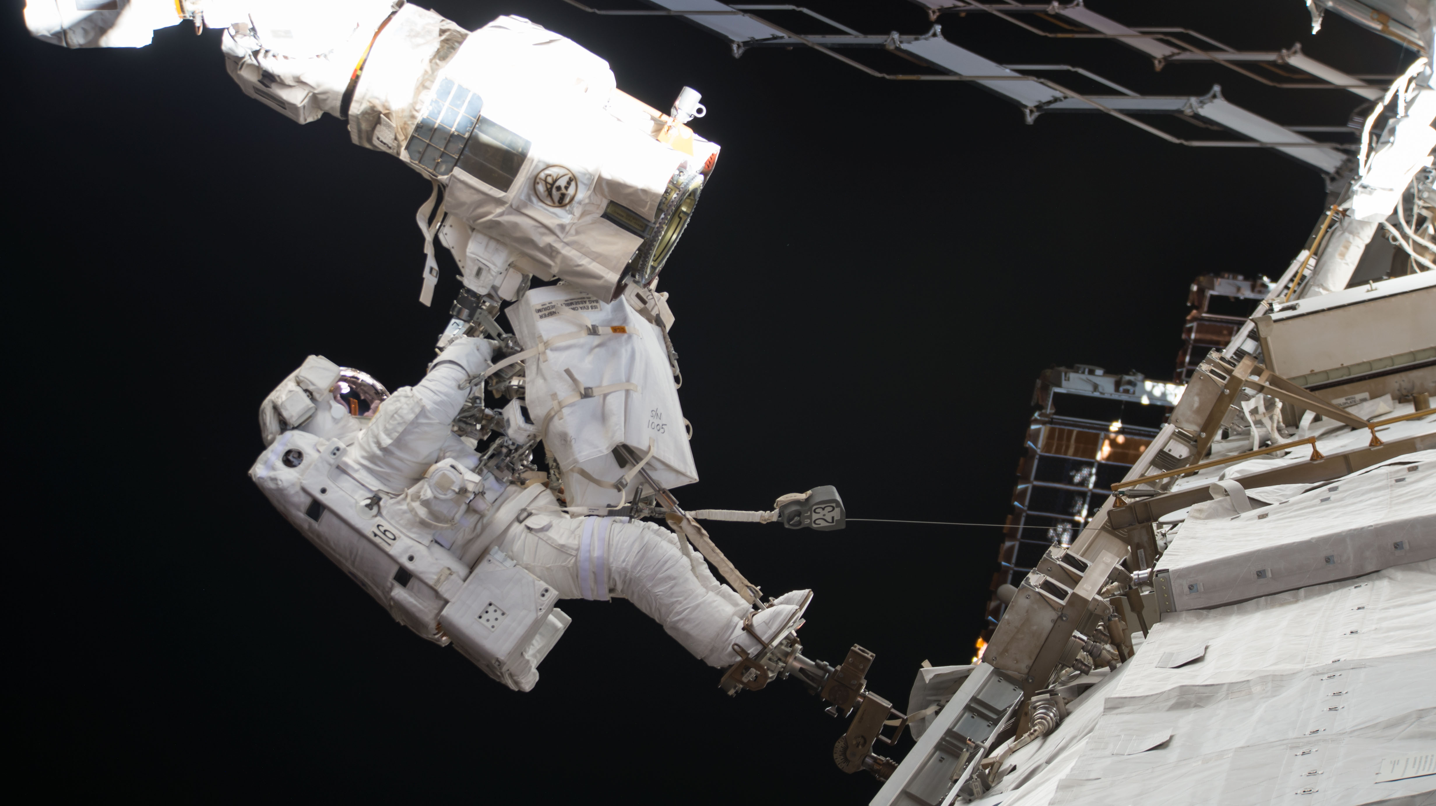 Flight Engineer and astronaut Joe Acaba is attached to a portable foot restraint and tethered to the International Space Station's truss structure. Acaba was performing maintenance on the Canadarm2 robotic arm during the third of a series of spacewalks that took place during Expedition 53.